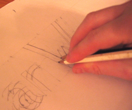 Using two pencils to create lettering.